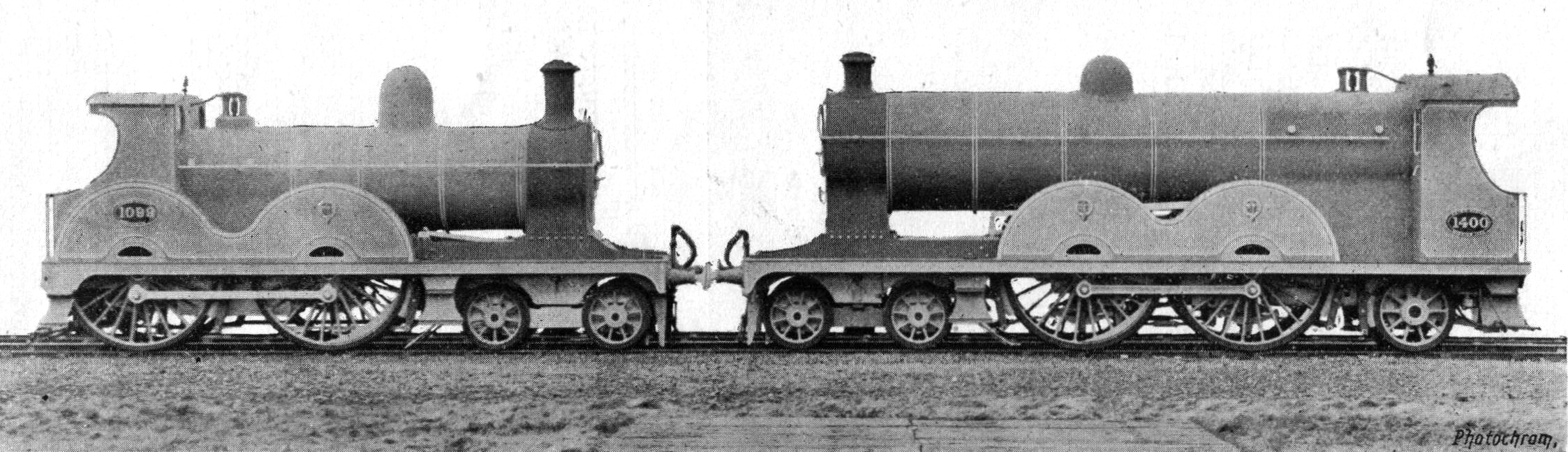 L&YR express locomotives (Railway Magazine, 100, October 1905).jpg